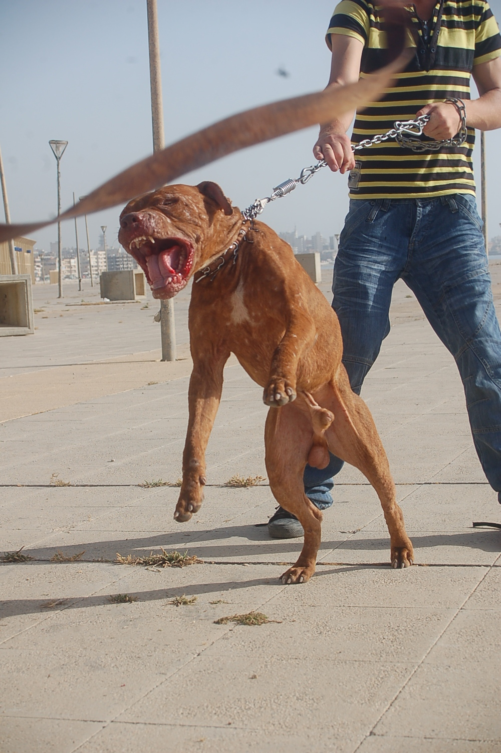 animal abuse